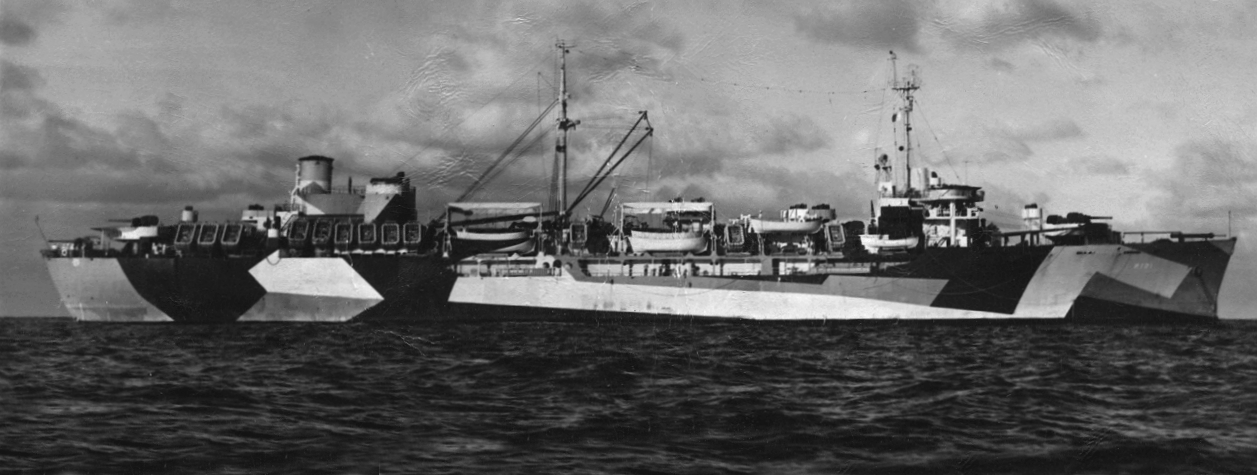 The U.S. Navy transport USS General T. H. Bliss (AP-131), circa in 1944-1945. She is painted in Camouflage Measure 32, Design 13T.